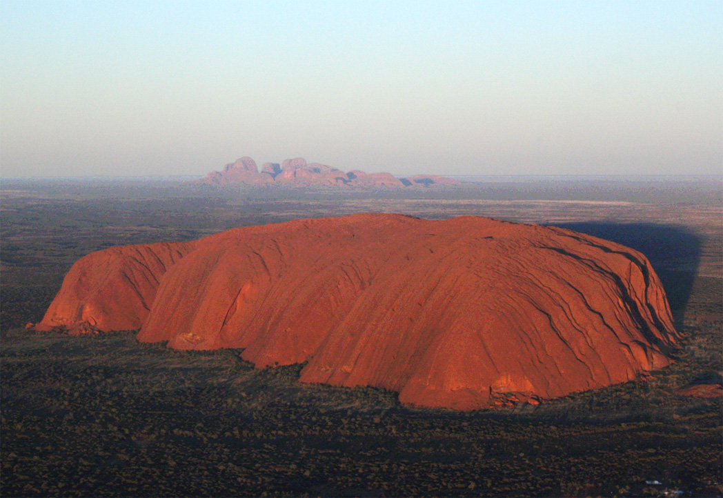 Dawn view of Uluru with Kata Tjuta in background, enhanced image